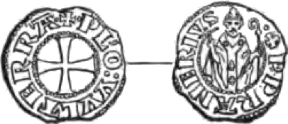 Image from Rivista italiana di numismatica 1891 (p. 435); Italian description p. 438-439 Picciolo (i.e. little denaro), ca. 13xx. Bishop Ranieri Belforti († 1320), minted in Berignone ? + PL'O:VVLTERRA cros * + * PP•RANIERVS Bishop standing